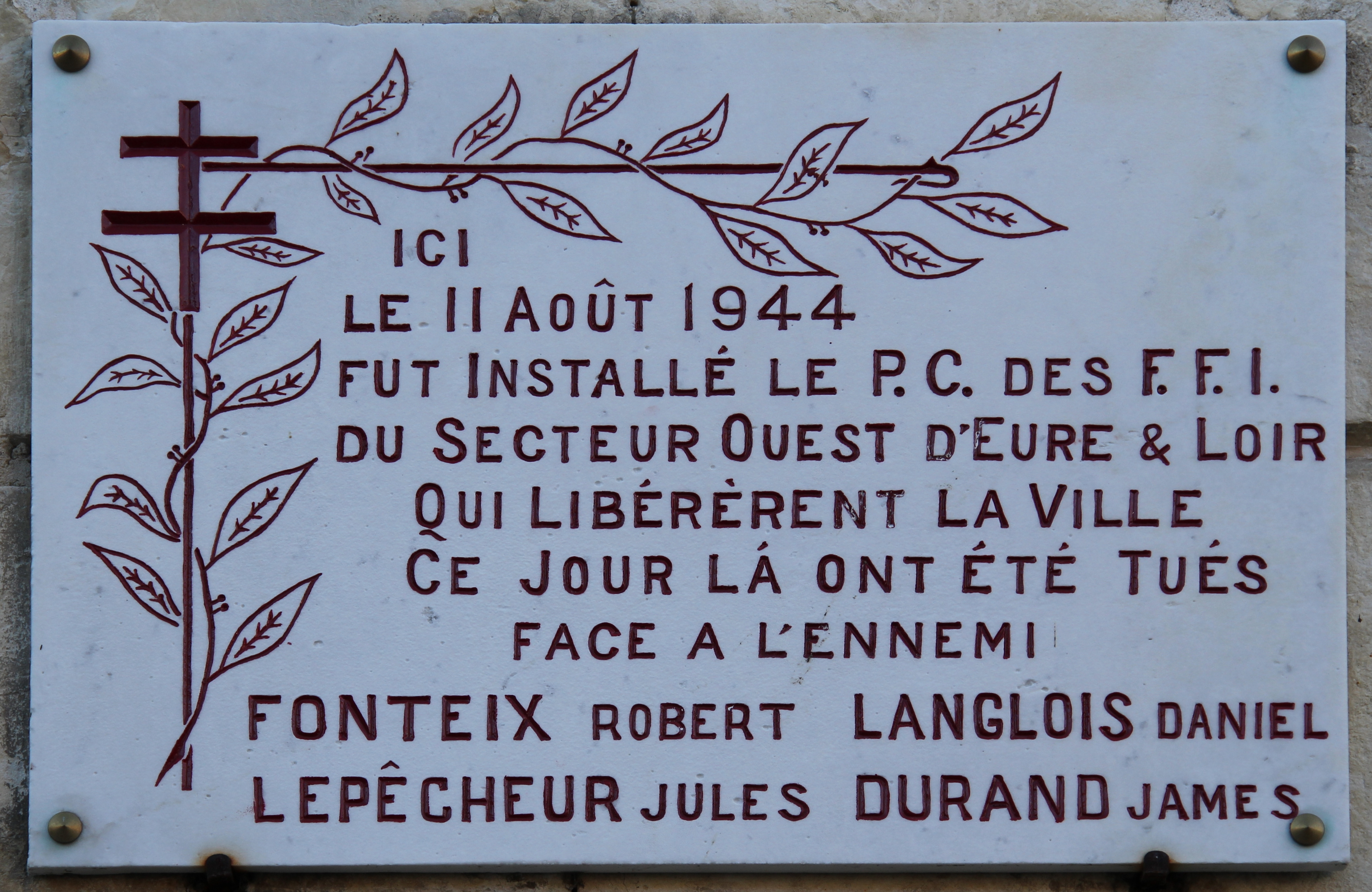 A plaque commemorating the town's liberation in 1944, in Nogent-le-Rotrou, Eure-et-Loir, France.